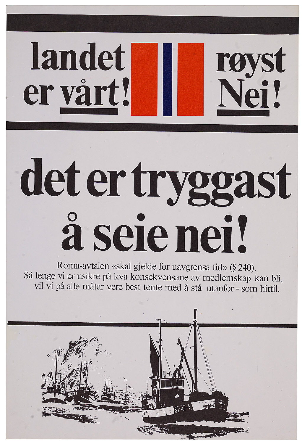 Image from National Archives of Norway's Flickr-Album "Protest" (all images marked with "No known copyright restrictions")